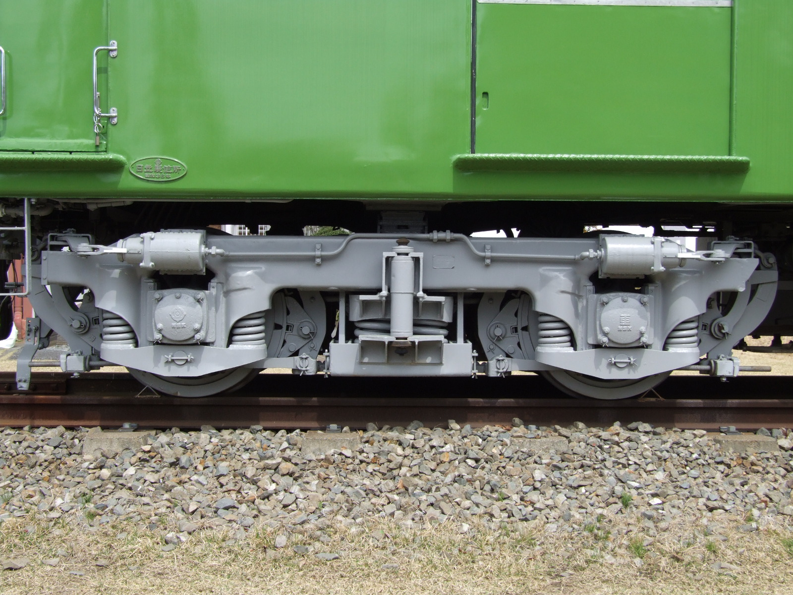 Bogie Truck KH-14A,Series 2010 of Keio Corporation,Japan